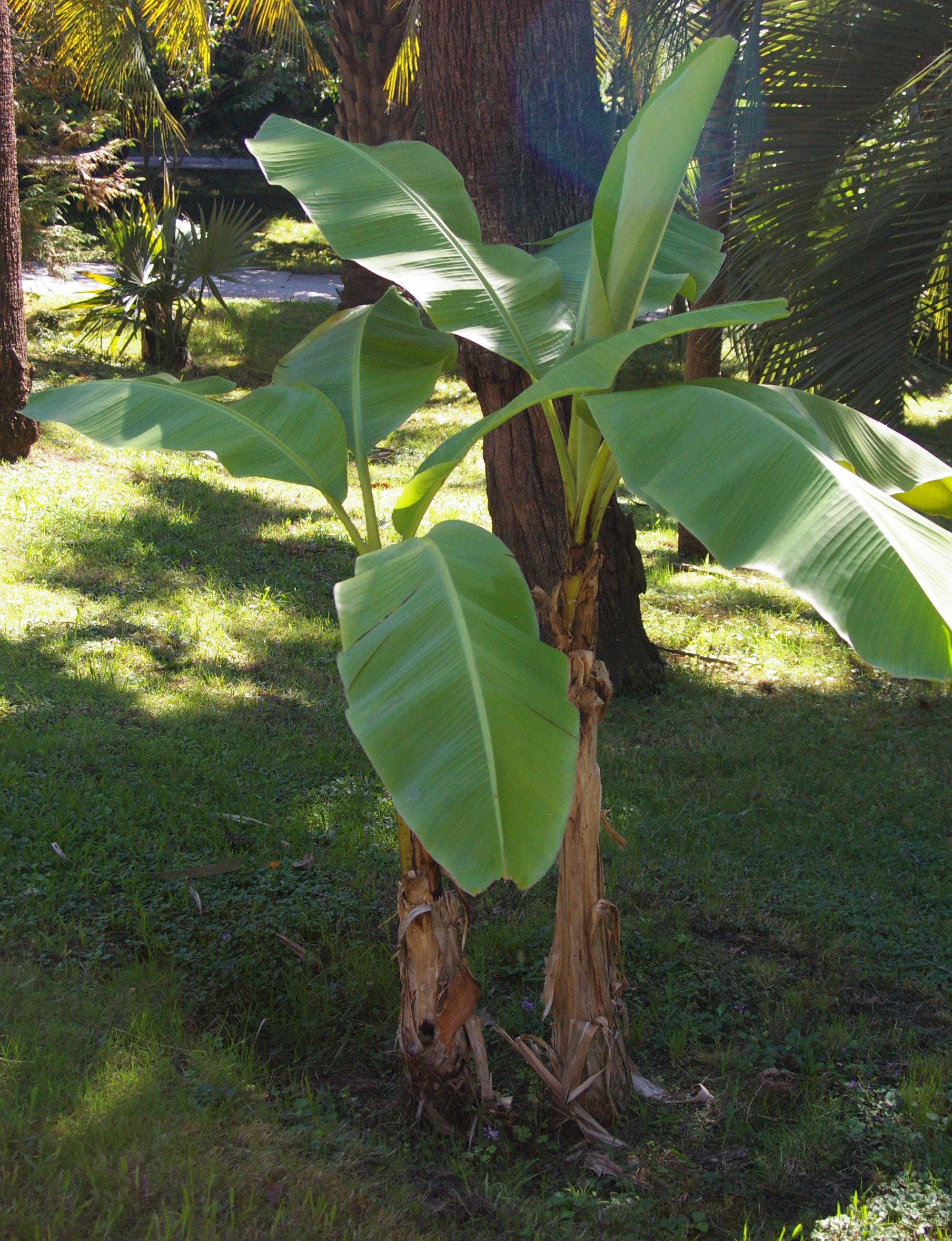 Musa basjoo, Sochi, Russia